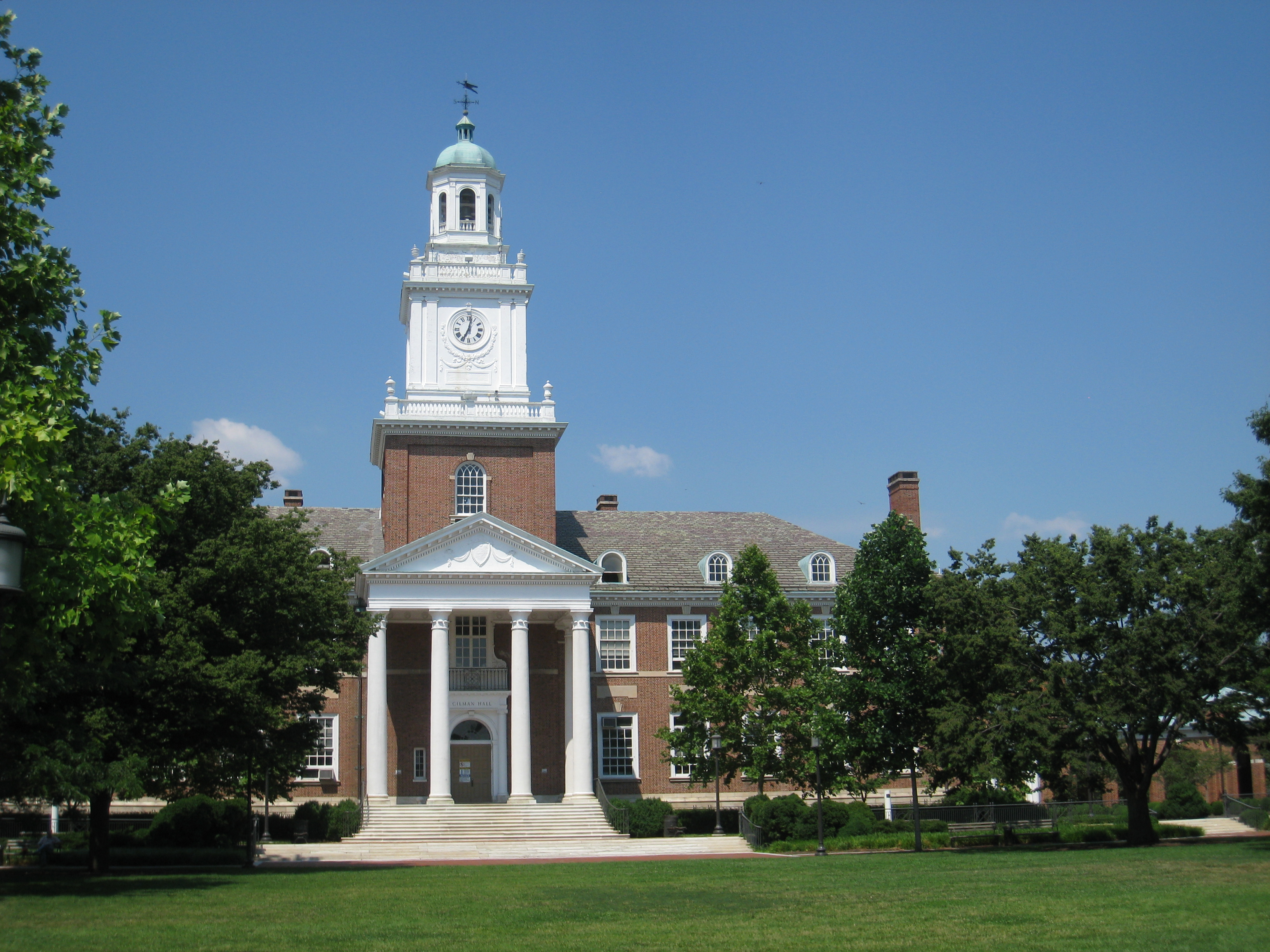 Gilman Hall, Johns Hopkins University, Baltimore, Maryland, USA.